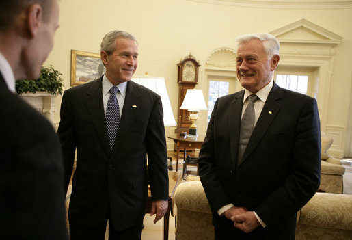 President George W. Bush is introduced to officials accompanying Lithuania's President Valdas Adamkus Monday, Feb.12, 2007, during the leader's visit to the White House.